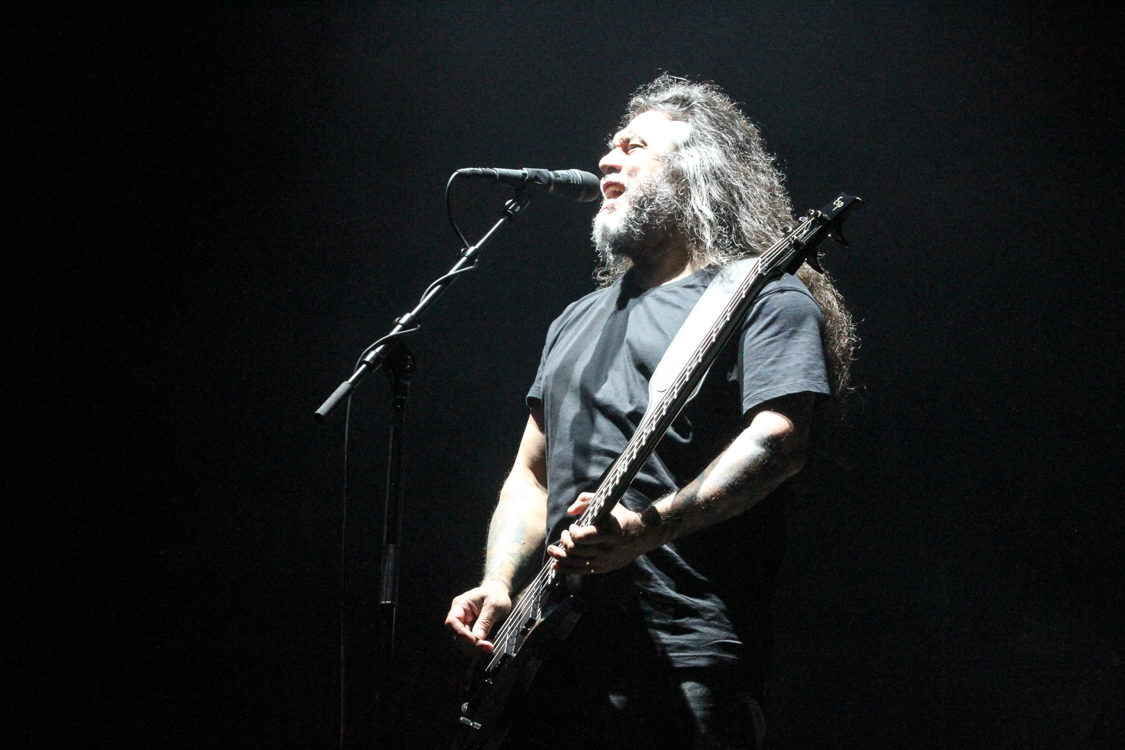 Festivalsommer This photo was created with the support of donations to Wikimedia Deutschland in the context of the CPB project "Festival Summer".